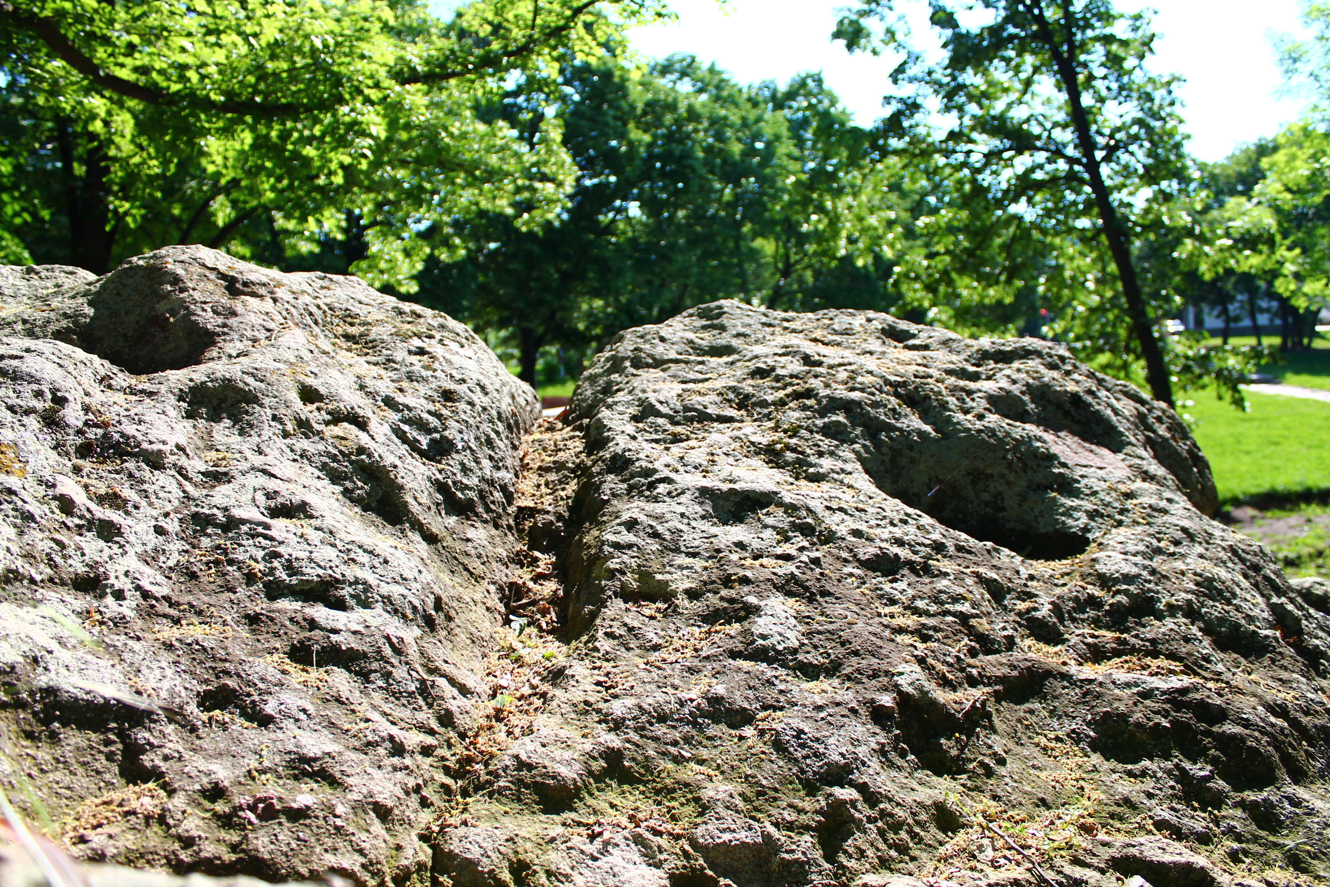 The step of Virgin Mary Haskovski Mineralni Bani Bulgaria 03